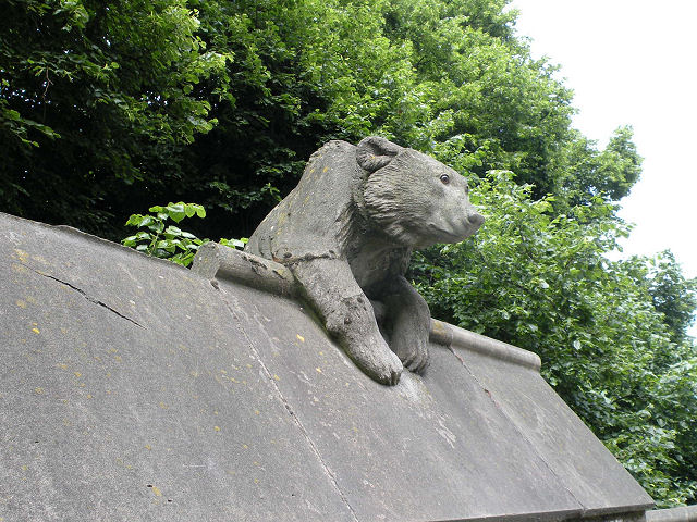 Animal Wall 5 - Bear. One of nine original sculptures carved in 1891 by Thomas Nicholls to designs by William Burges. Originally on the walls of the Castle they were moved to Bute Park in the 1920s. Next: 1375355 Start: 1375244